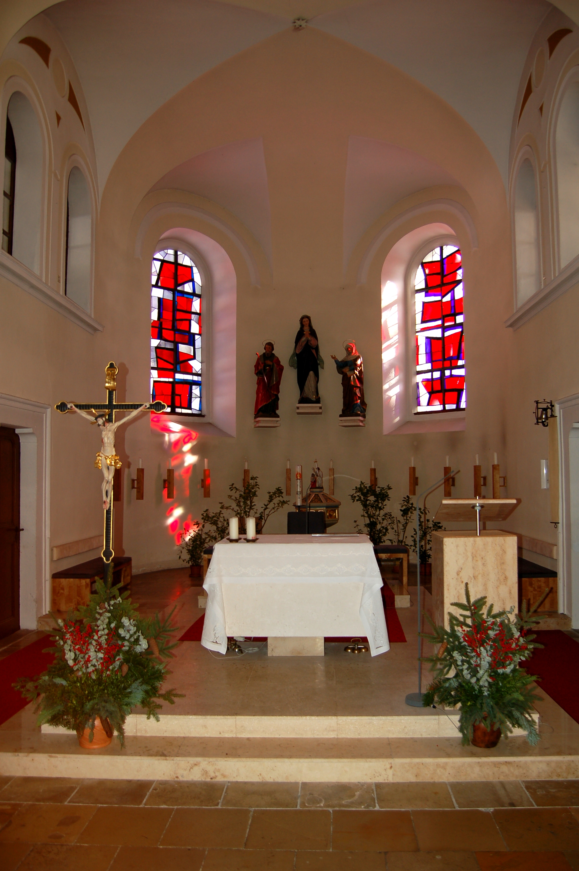 The parish church Immaculate Conception in Steyrling, municipality of Klaus an der Pyhrnbahn, Upper Austria, is protected as a cultural heritage monument. Here altar and chorus.